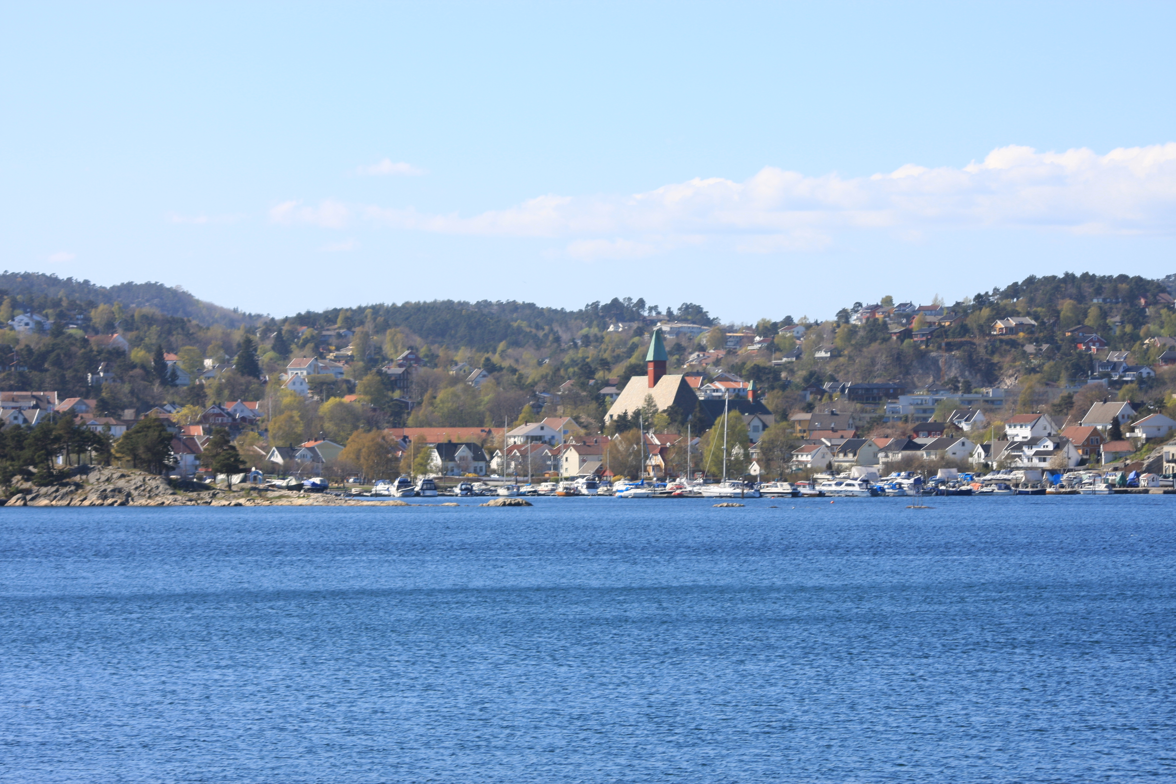 Vaagsbygd area, a suburb of Kristiansand, Norway. Vaagsbygd Church in the center.